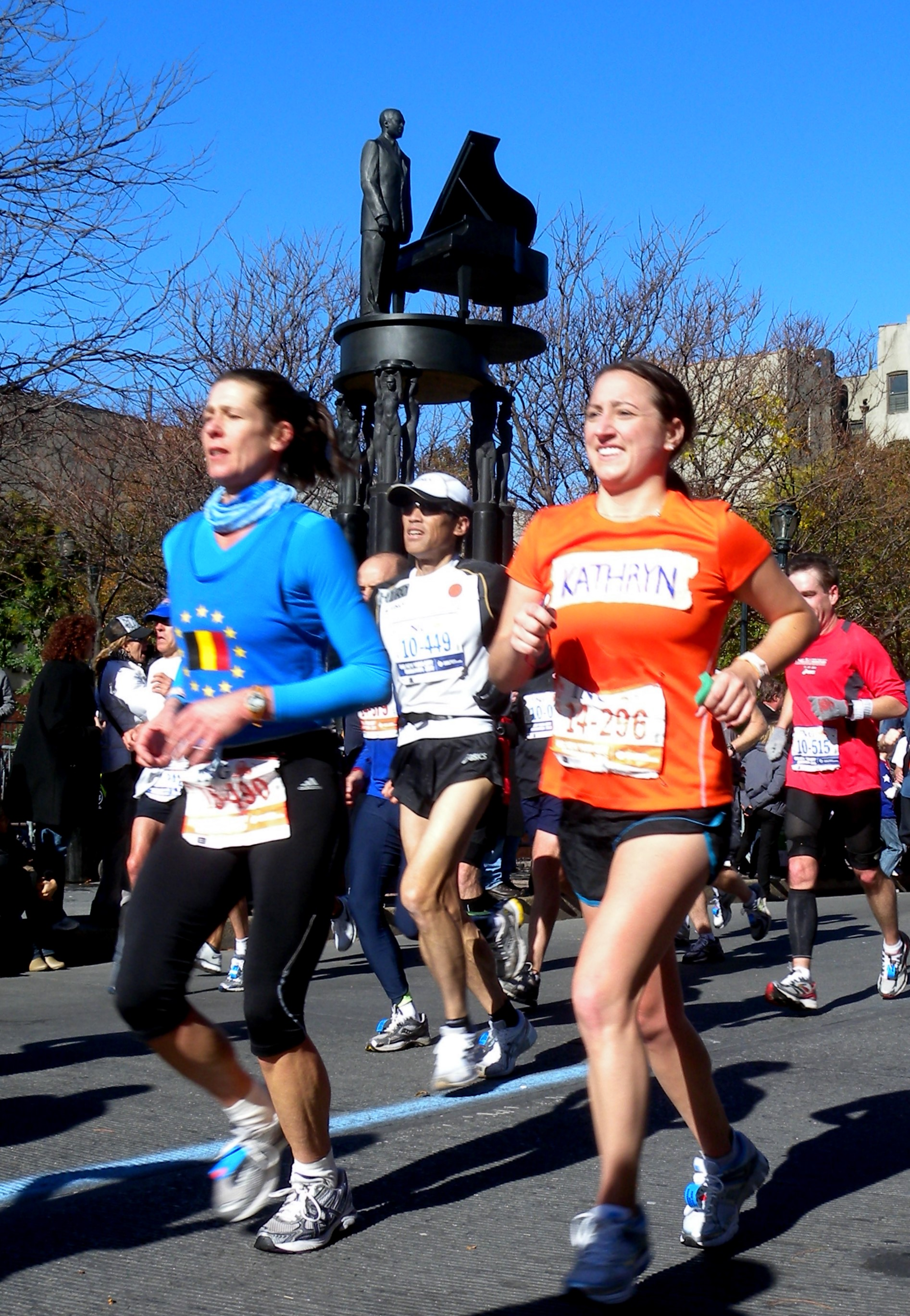 Looking north as marathon runners thunder past Duke Ellington monument on a sunny midday. EXIF time is off by an hour due to photographer forgetting to set to Standrd Time.